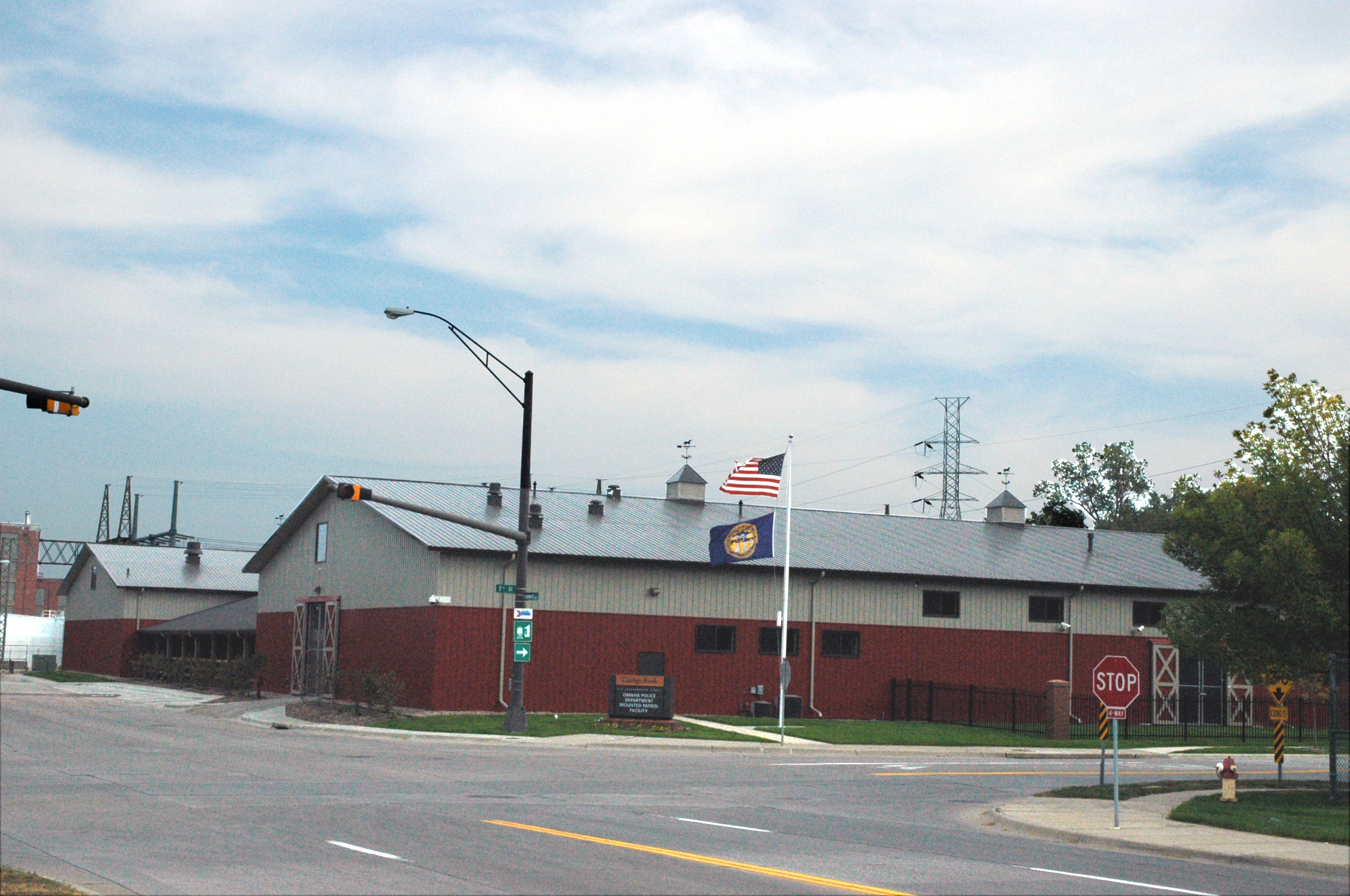 Omaha, Nebraska Police Department Mounted Patrol (Horse) barn.